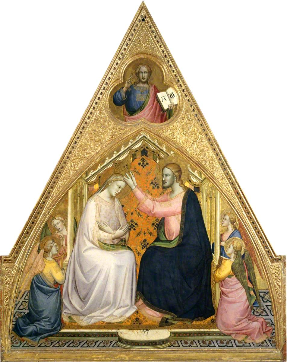 Lorenzo Monaco, Coronation of the Virgin, Christ Redeemer, 1388-90, Courtauld Institute of Art Gallery